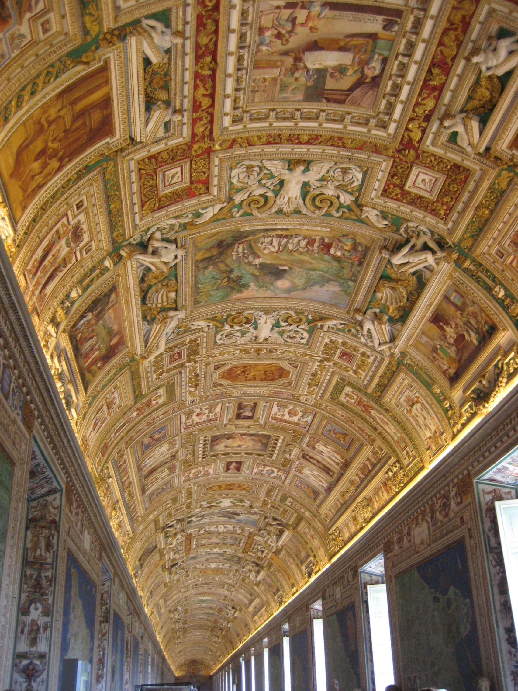 Ceiling of the Gallery of Maps in Vatican Museum